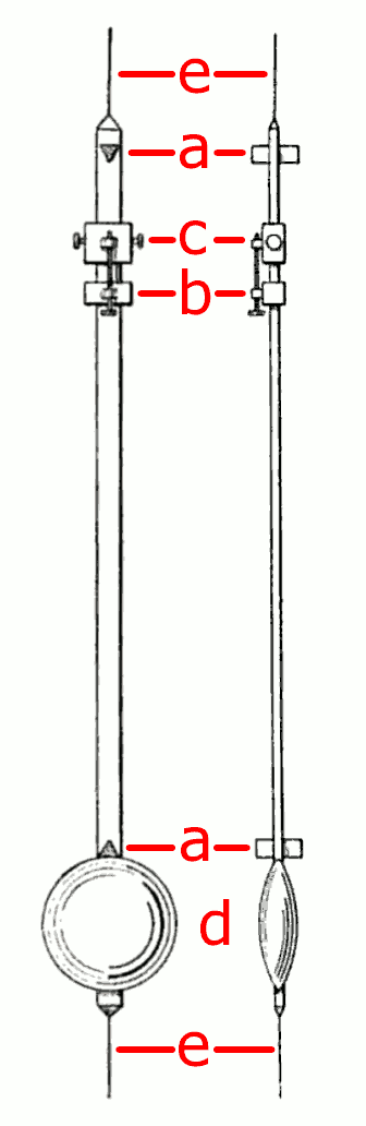 Drawing of a Kater pendulum from a 1920 physics textbook. Invented in 1817 by British physicist Henry Kater, it was used to measure the local acceleration of gravity in geophysical surveys. The labeled parts are identified in the text as: (a) opposing knife edges on either end from which pendulum is suspended, (b) fine adjustment weight operated by adjustment screw, (c) coarse adjustment weight which could be moved along rod and fixed with setscrew, (d) bob, (e) pointers for reading. Alterations to image: rotated 90° CCW, removed part labels and replaced with different labels in color, converted from JPG to 16 color PNG.